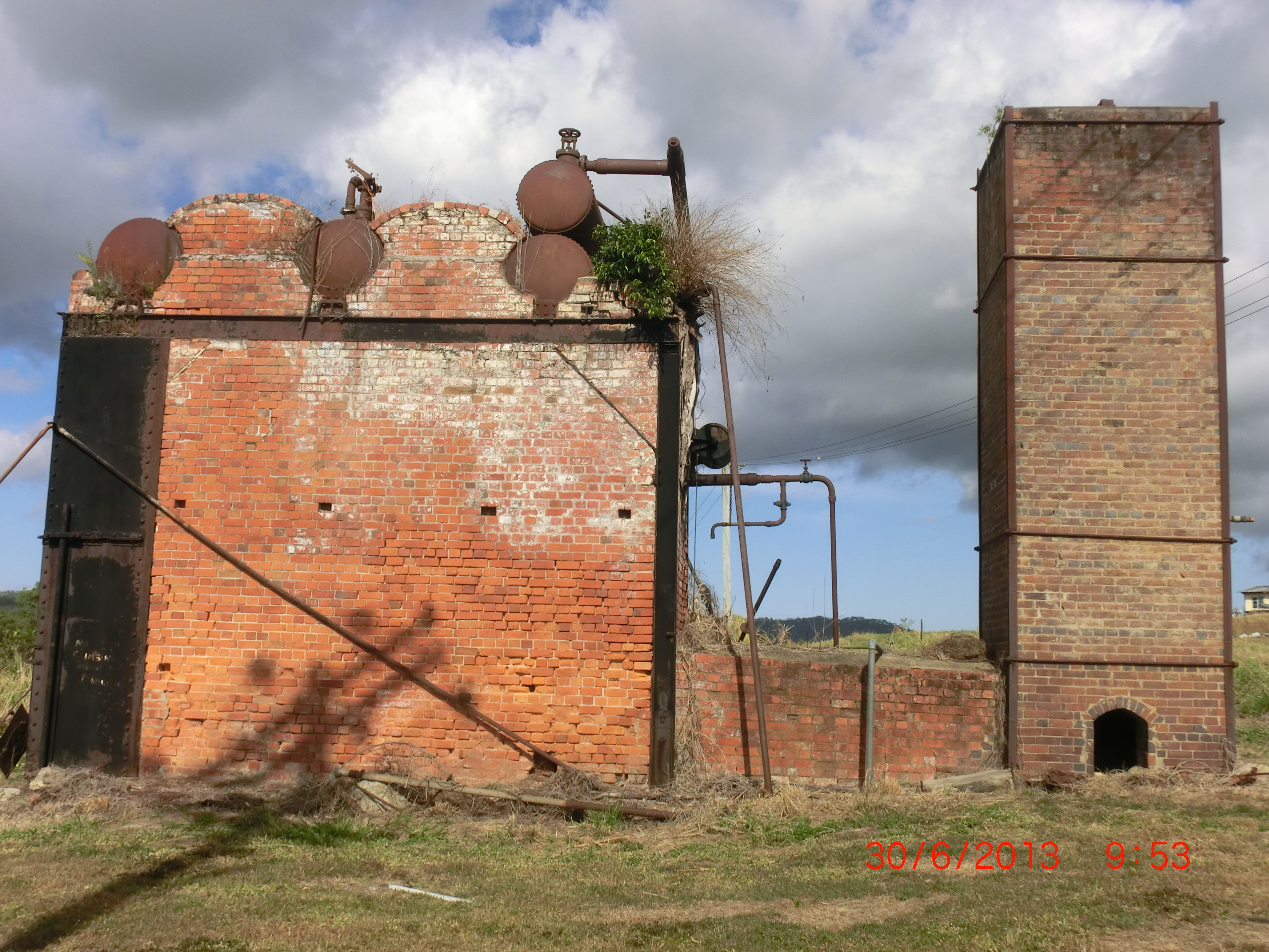 Mount Molloy QLD 4871, Australia